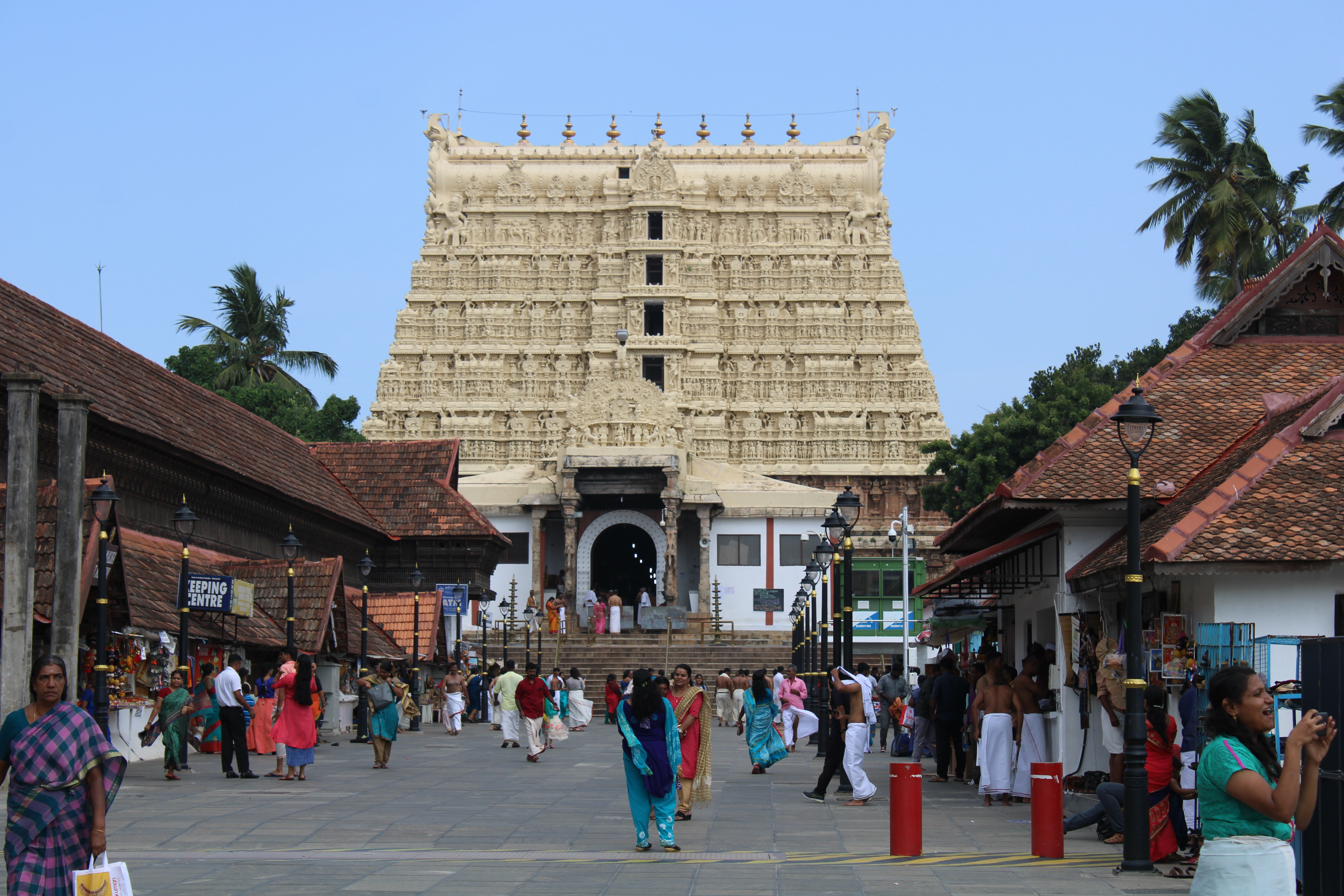 Padmanabhaswamy Temple